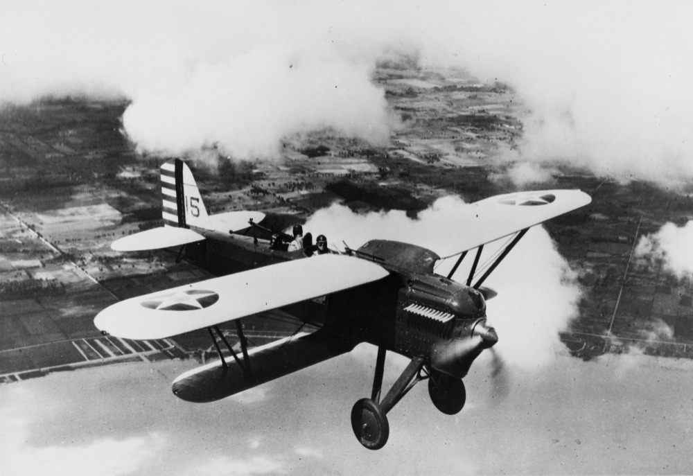 PictionID:41898329 - Title:Ray Wagner Collection Image - Catalog:16_000830 Berliner-Joyce Y1P-16 - Filename:16_000830 Berliner-Joyce Y1P-16.tif - - Ray Wagner was Archivist at the San Diego Air and Space Museum for several years and is an author of several books on aviation --- ---Please Tag these images so that the information can be permanently stored with the digital file.---Repository: San Diego Air and Space Museum